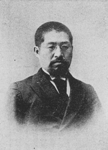 Fusanosuke Tada.